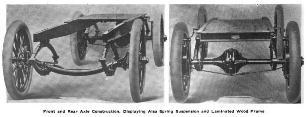 Franklin automobile 1910 - laminated wood frame and suspension